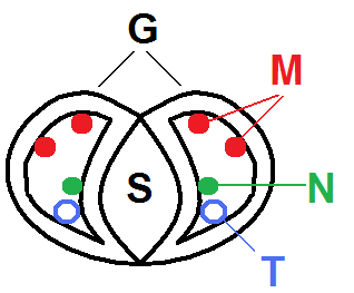 Diagram of a proboscis.